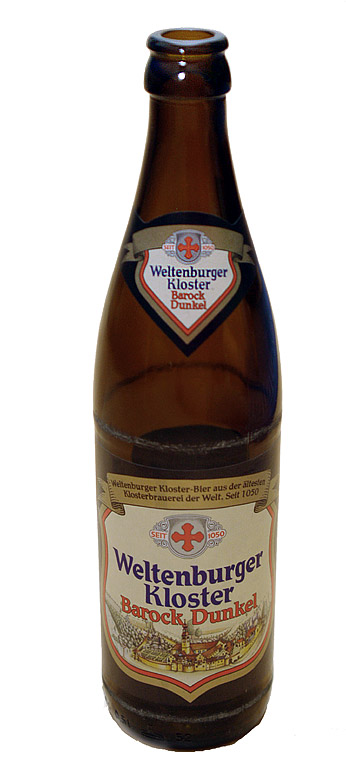 Weltenburger Kloster Barock Dunkel. German beer from the world's oldest abbey brewery.